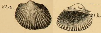 Anadara kagoshimensis (Tokunaga, 1906), Arcide, Bivalvia, Mollusca, original figures